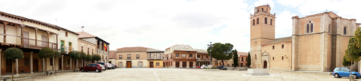 Panorámica de la plaza Mayor con el Ayuntamiento y la iglesia de Nuestra Señora de la Asunción.